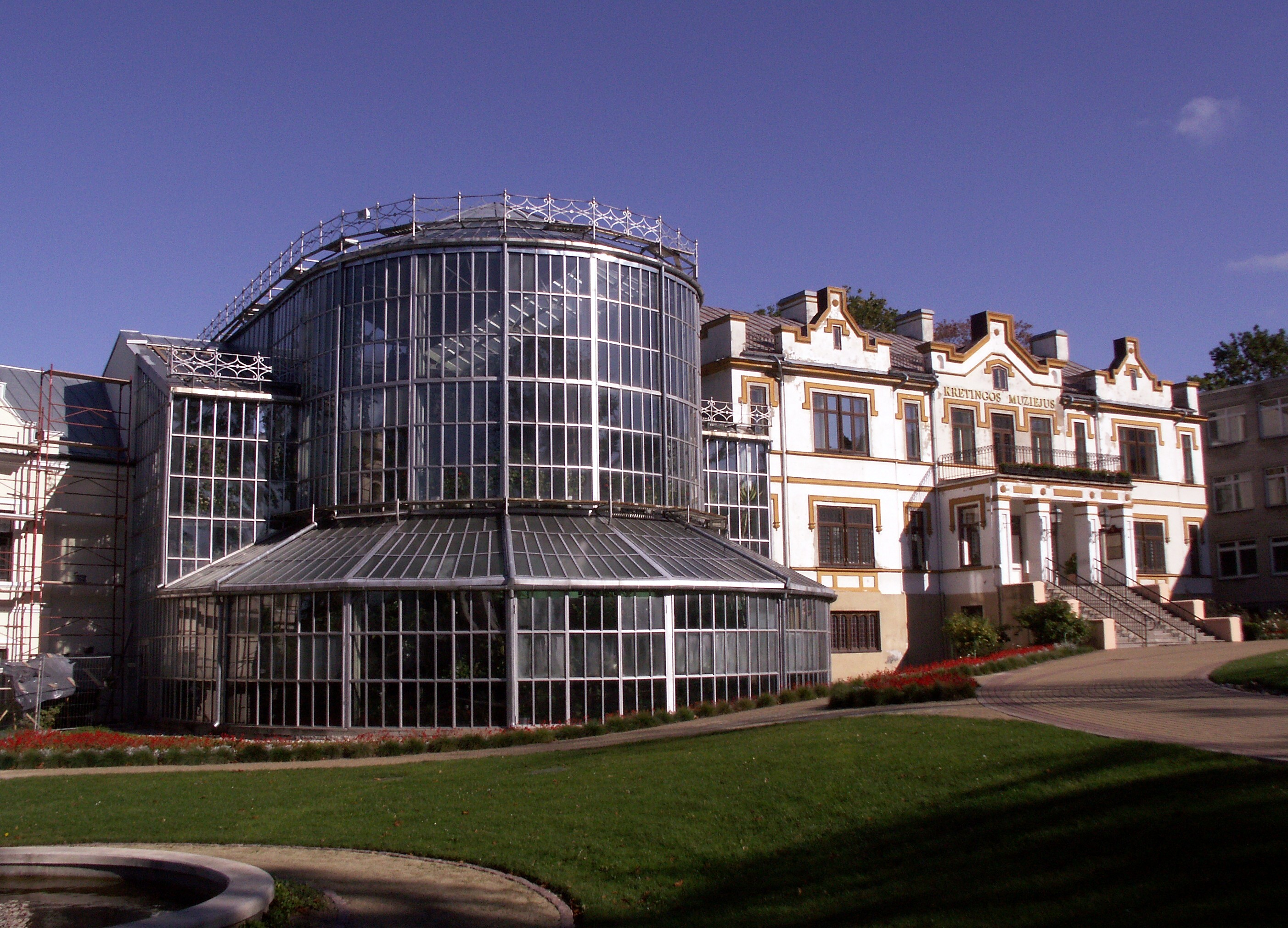 Kretinga manor, LithuaniaLietuvių: Kretingos dvaras, Lietuva